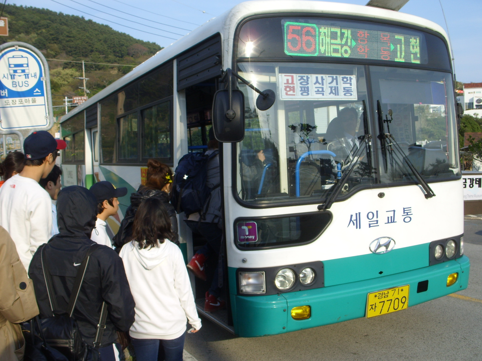 Urban bus No. 56 in Geojedo Island, Gyeongsangnam-do, Korea